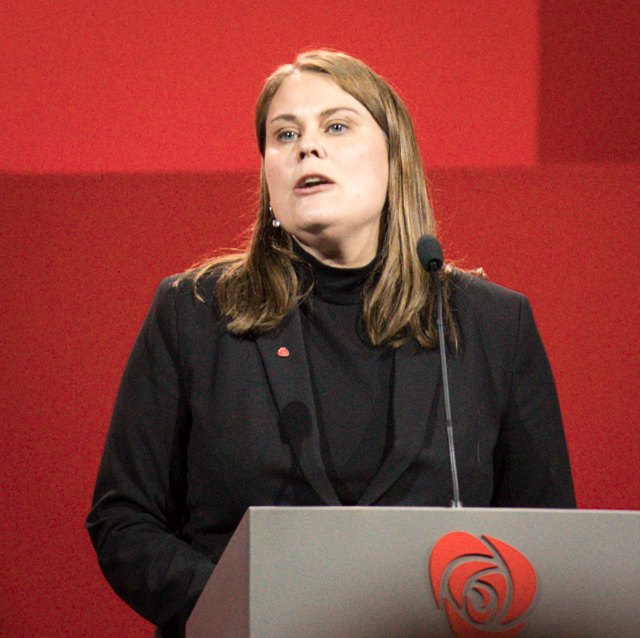 Siri Gåsemyr Staalesen during the debate at Norway Labour party's bi-yearly congress in 2017(Arbeiderpartiets landsmøte).